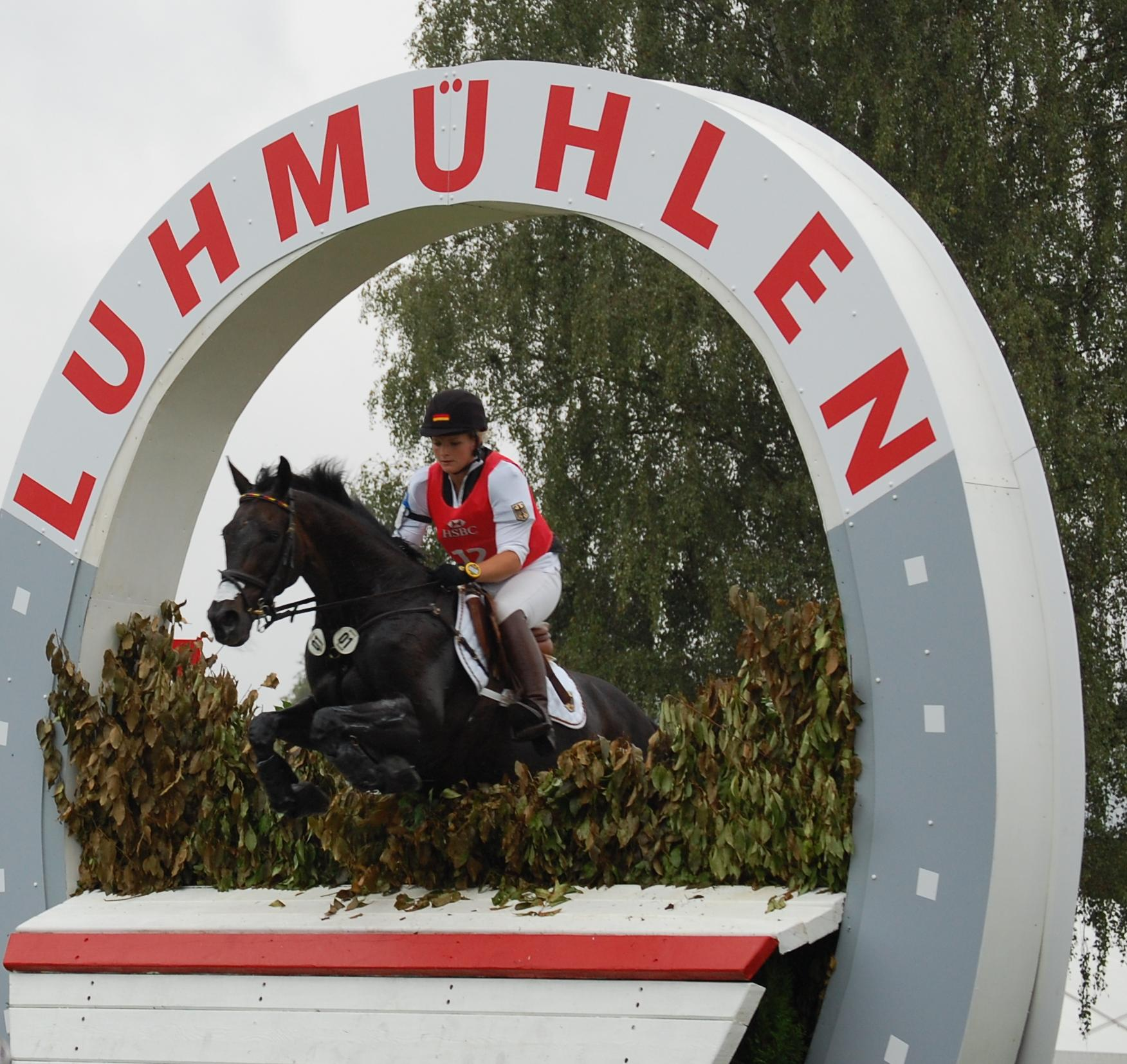 Julia Krajewski and After the Battle, fence 11 "Gärtnerei Wredes Luhmühlen" (cross-country phase), 2011 European Eventing Championship, Luhmühlen